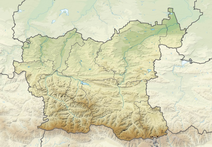 Relief Location map Lovech Province, Bulgaria. Geographic limits of the map